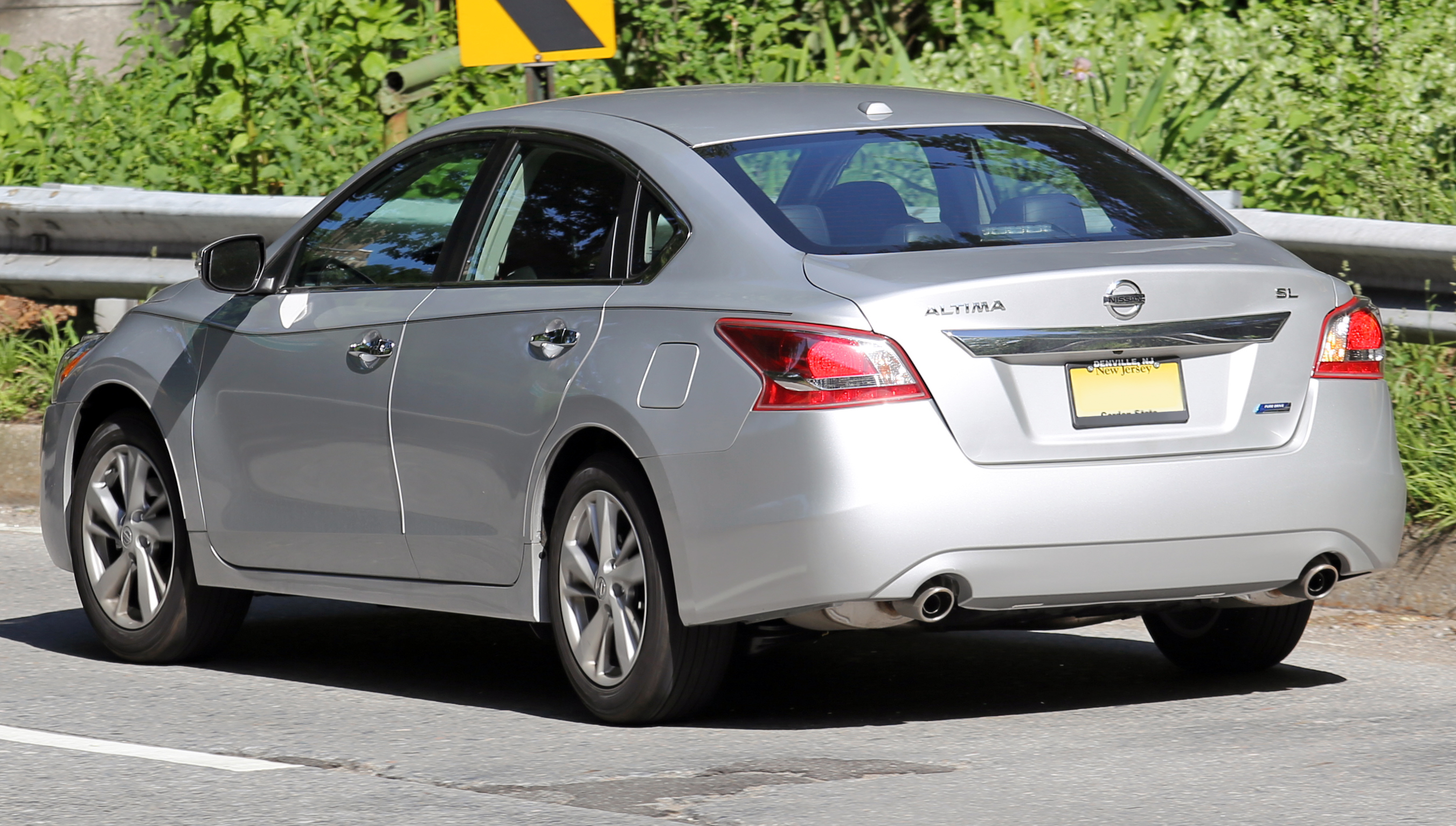 Nissan Altima 2.5 SL, rear view at speed.